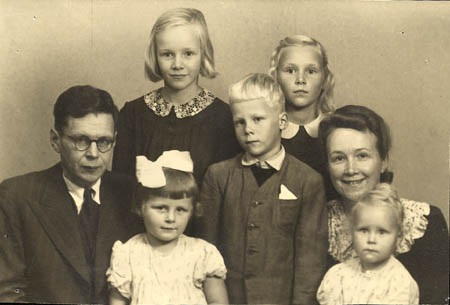 The Haavio family in 1944. Right: Professor Martti Haavio and left: his wife, senior lecturer Elsa Enäjärvi-Haavio, children: Behind from left: Elina (Haavio-Mannila) and Marjatta (Koskijoki), front: Katarina (Eskola), Matti and Magdalena (Jaakkola). The family photo of the Haavios was used in the September 1944 issue of Suomen Kuvalehdessä in order to illustrate an article titled The war and eugenics. The article suggested that the best genes of the people could be enlarged at least as powerfully as the mediocre. .